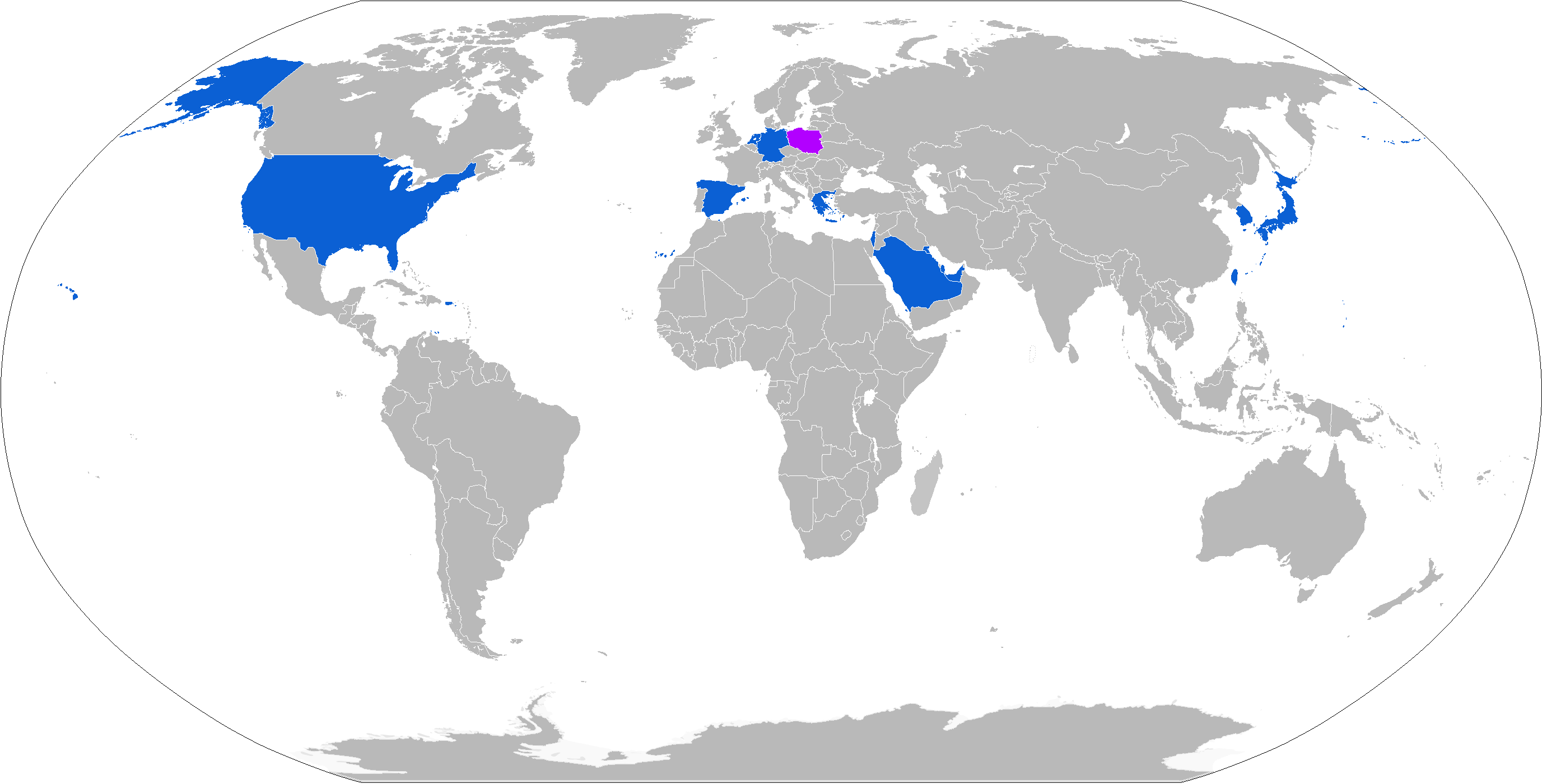 MIM-104 Patriot operators